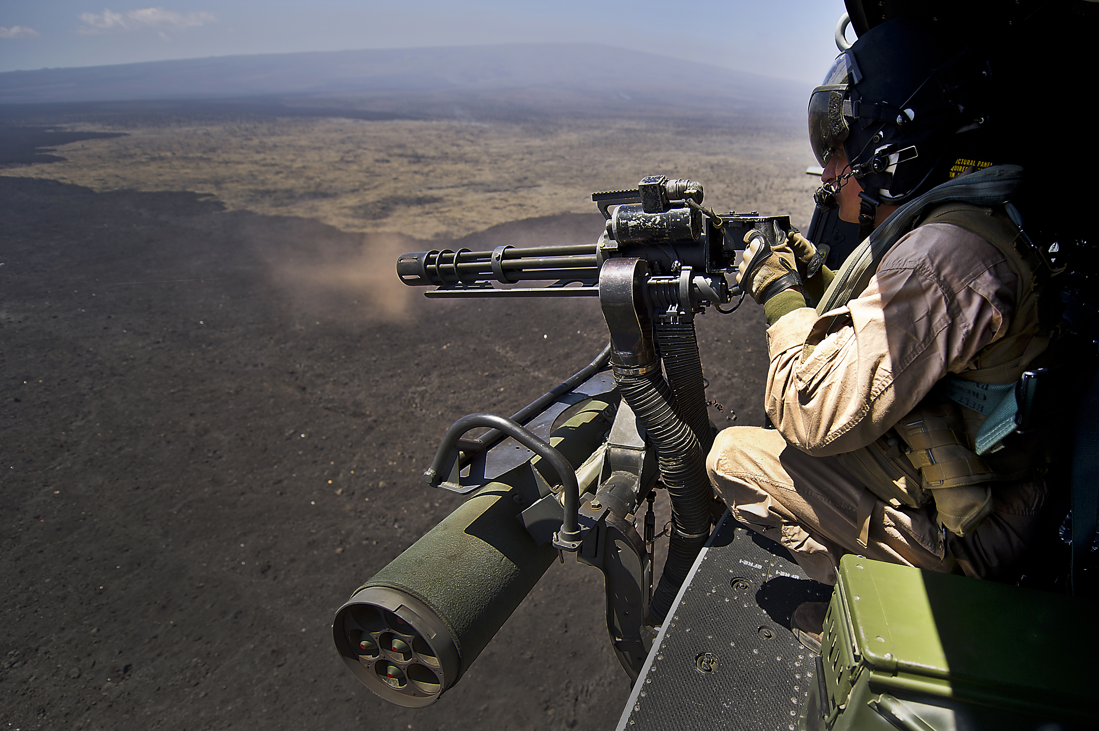 U.S. Marine Corps Cpl. Richard Sippl, UH-1Y Venom, flight crew chief assigned to Marine Light Attack Helicopter Squadron 169 (HMLA-169) fires a 7.62mm GAU-17/A Minigun July 22, 2012, during a live fire combat training mission over the Pohakuloa Training Area, (PTA) Hawaii during Rim of the Pacific (RIMPAC) Exercise 2012. HMLA-169 is part of the aviation combat element of special purpose Marine air-ground task force three. Twenty-two nations, more than 40 ships and submarines, more than 200 aircraft and 25,000 personnel are participating in RIMPAC exercise from June 29 to Aug. 3, in and around the Hawaiian Islands. The world's largest international maritime exercise, RIMPAC provides a unique training opportunity that helps participants foster and sustain the cooperative relationships that are critical to ensuring the safety of sea lanes and security on the worlds oceans. RIMPAC 2012 is the 23rd exercise in the series that began in 1971.